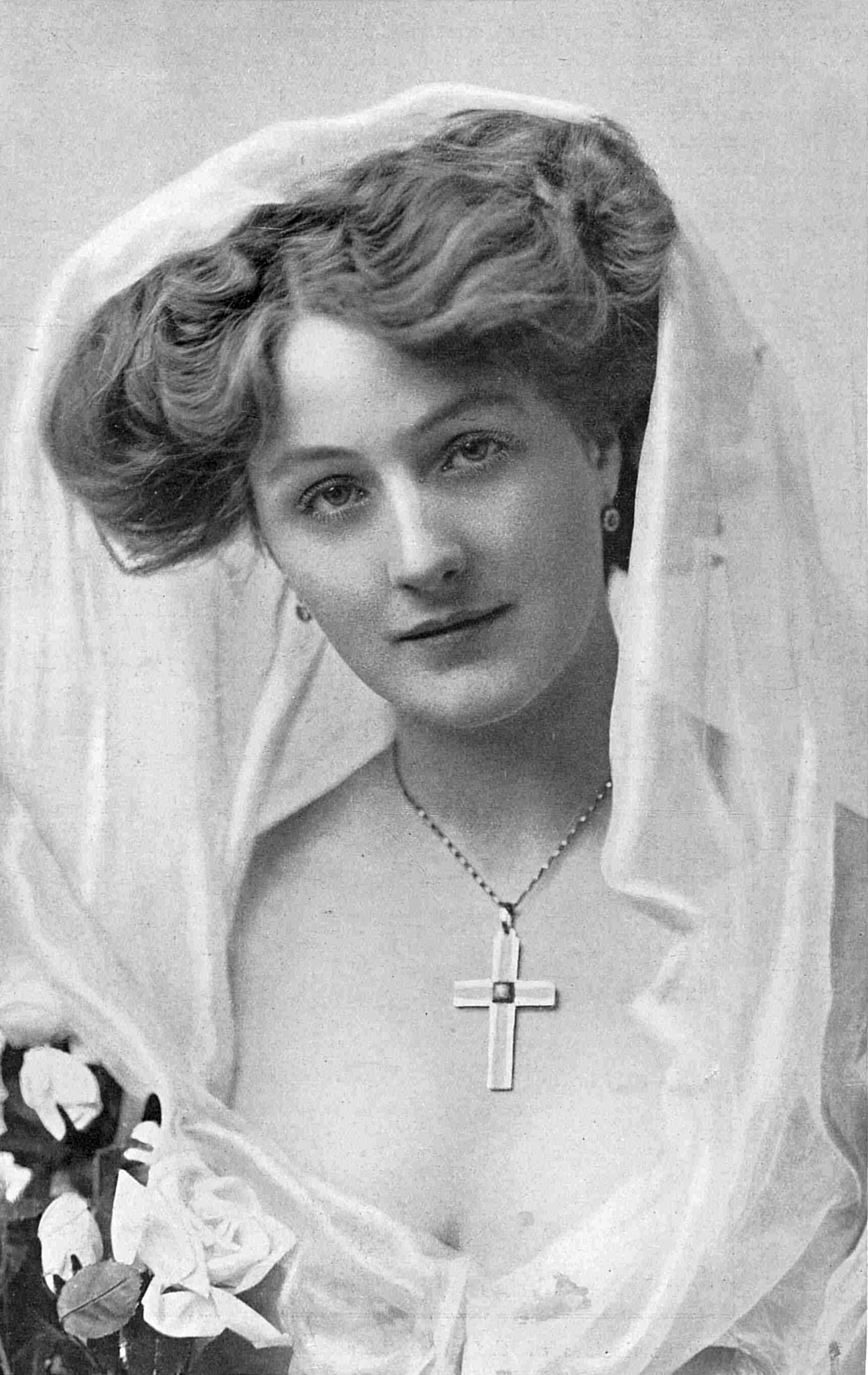 Edna Loftus, British actress, in a 1906 publicity photo for the musical comedy "The Catch of the Season"